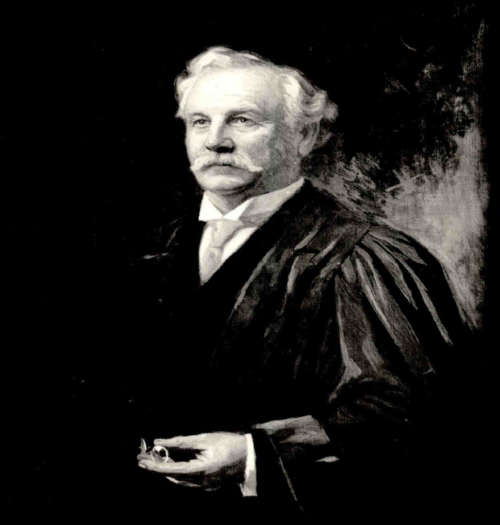 Official CTNG photo of General Trowbridge